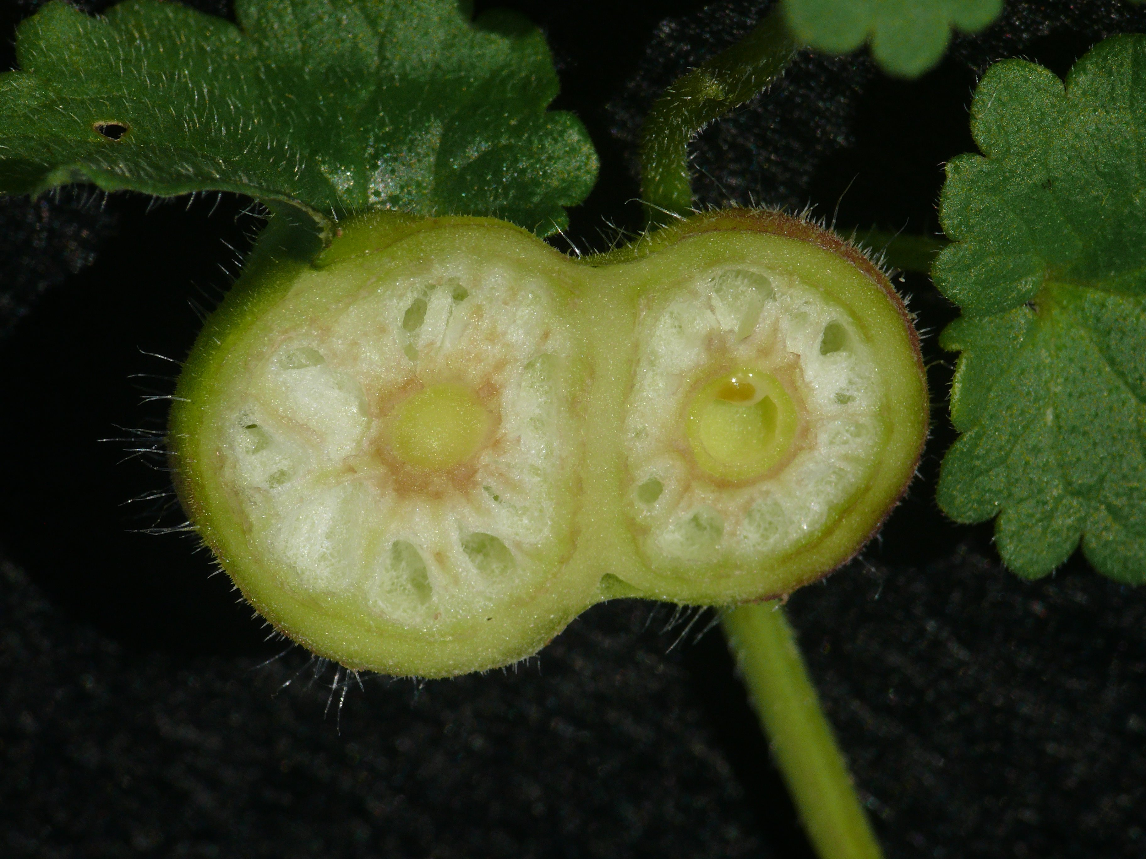 Opened gall of the gall wasp Liposthenes glechomae on ground-ivy (Glechoma hederacea)